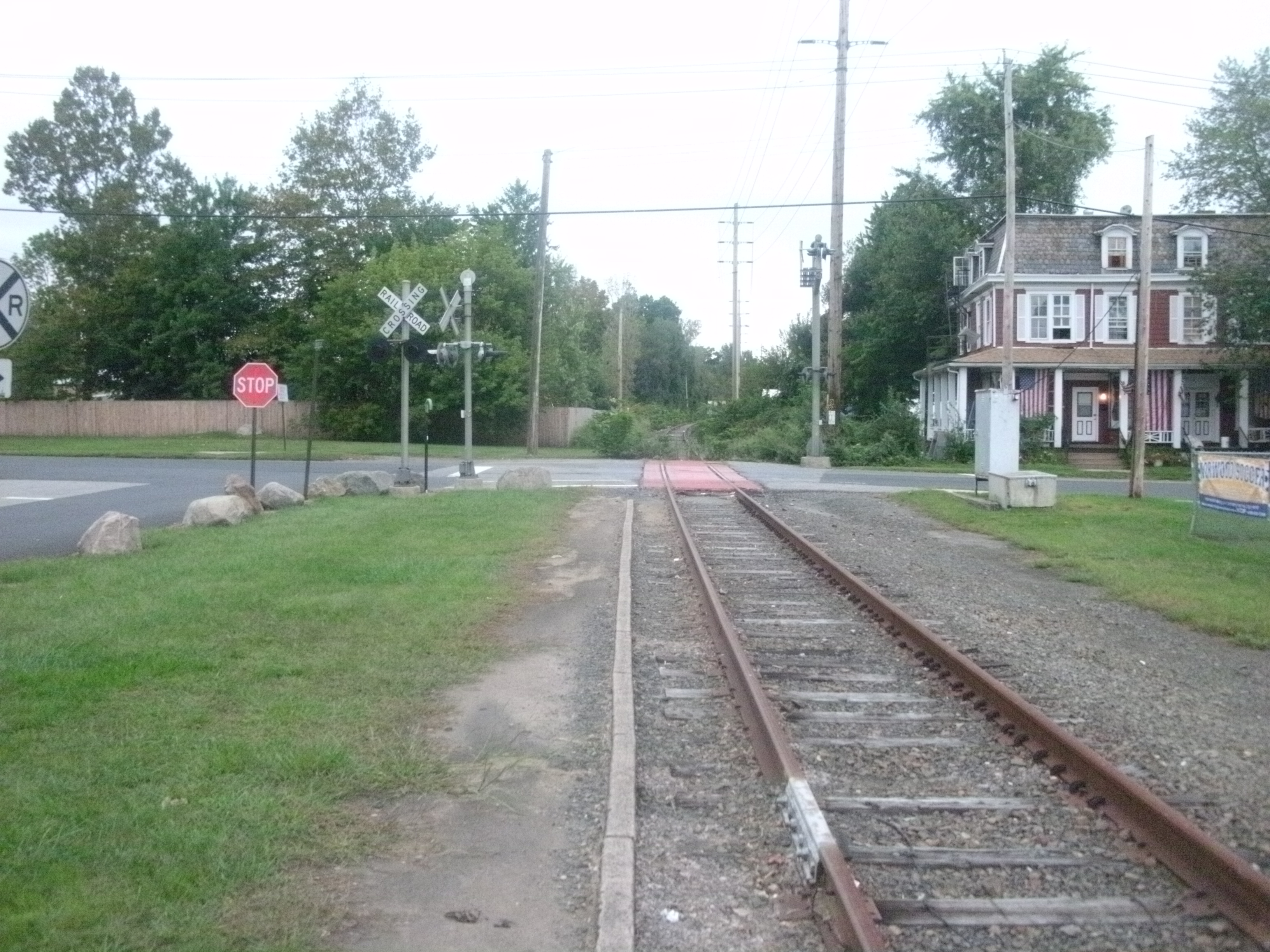 The former station on the Erie Railroad's Northern Branch at Norwood, New Jersey. The station platform pokes out next to the lone remaining track.